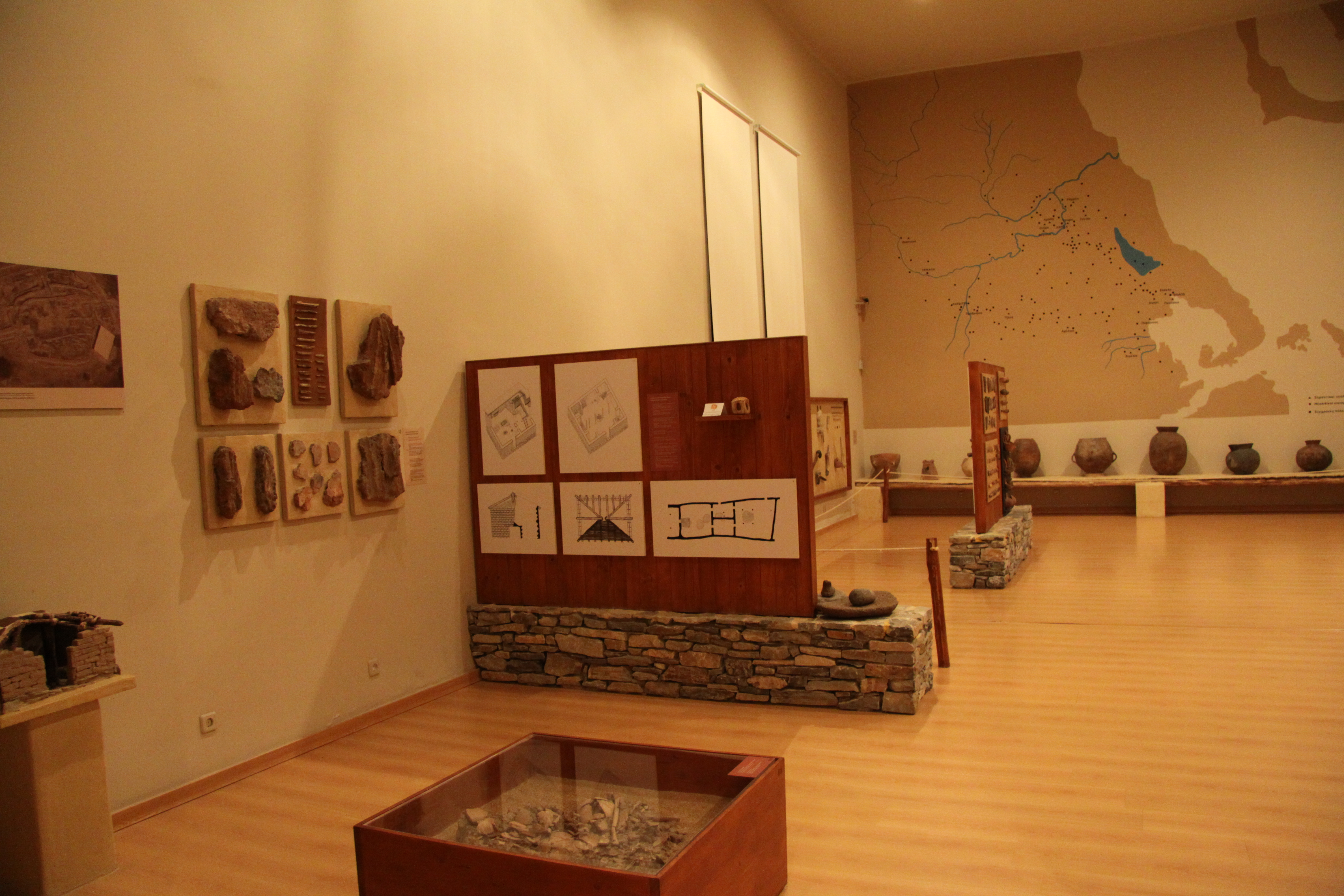 Interior of Neolithic exhibition